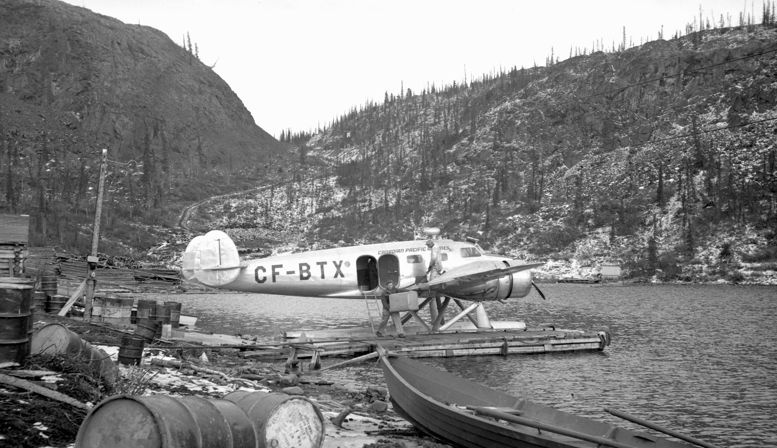 Twin engine float plane CF-BTX of Canadian Pacific Airlines at dock in Port Radium Original caption: “Port Radium Caption: Twin engine float plane CF-BTX of Canadian Pacific Airlines at dock in Port Radium [ca. 1940-45] 756.23 Kb 10.00 x 5.77 inches Credit: Busse/NWT Archives/N-1979-052-3491”